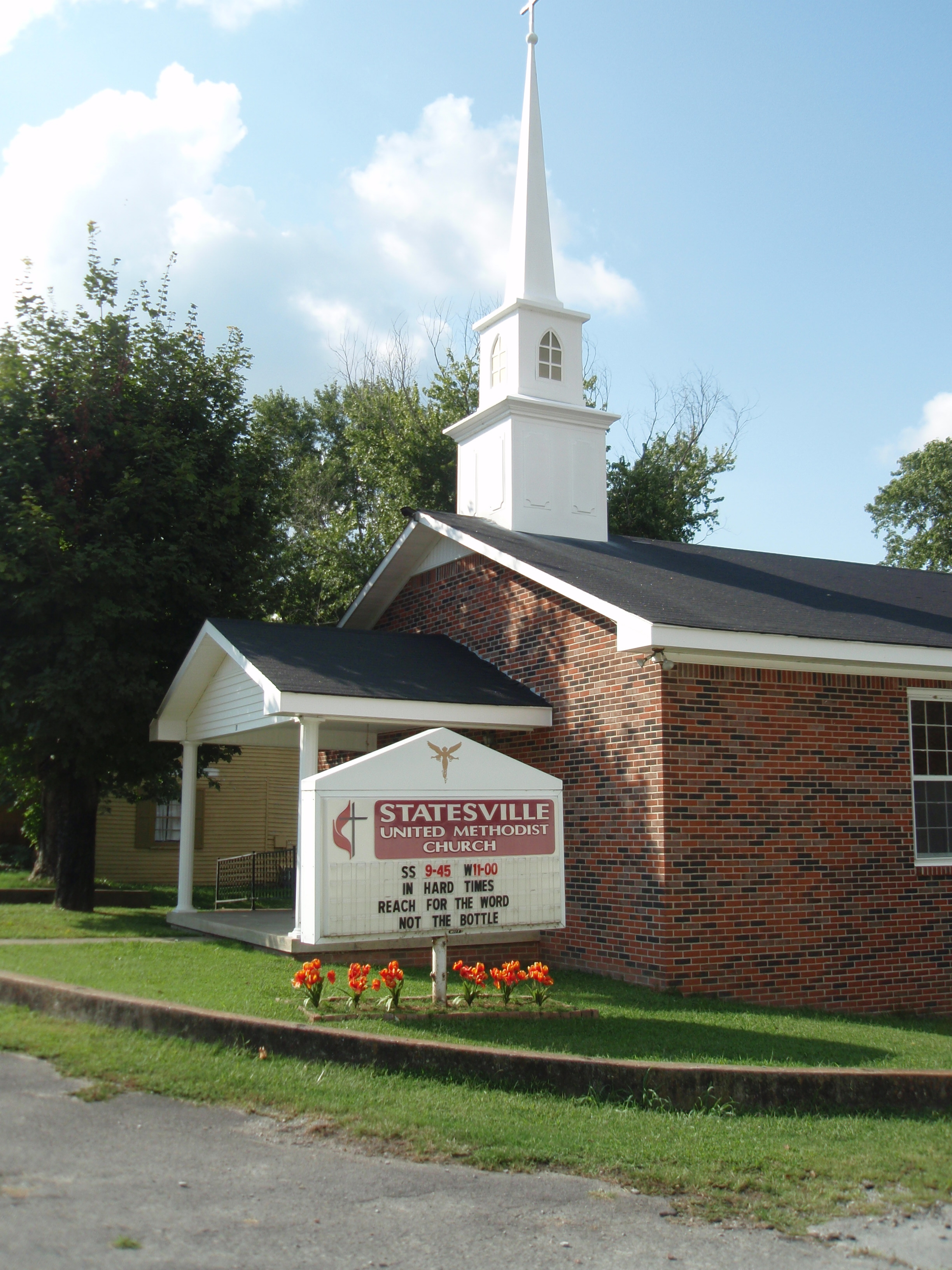 Statesville United Methodist Church, Statesville, Tennessee, United States